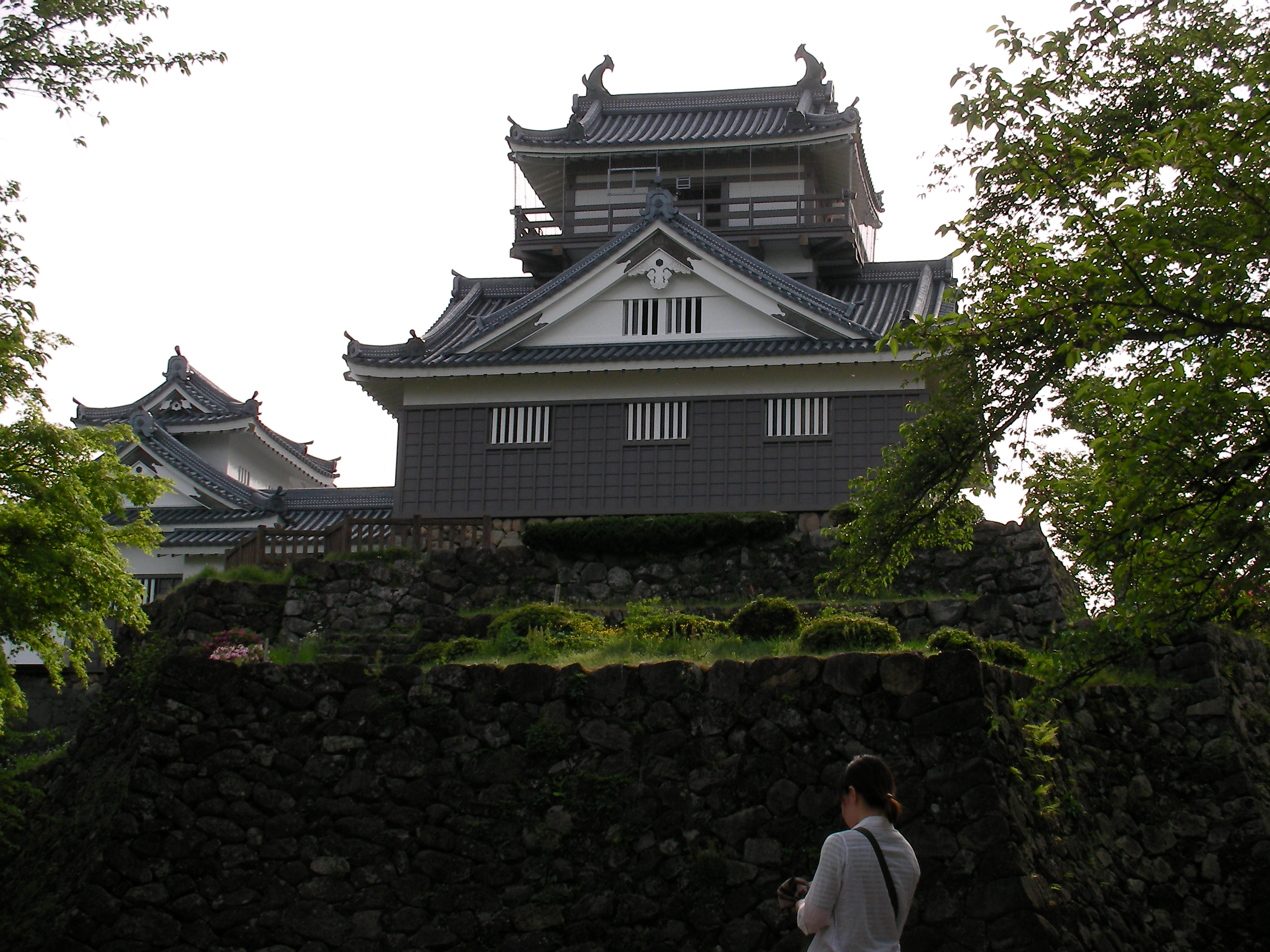 Echizen Ono Castle